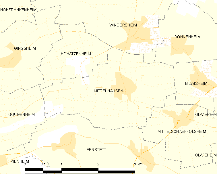 Map of French municipality